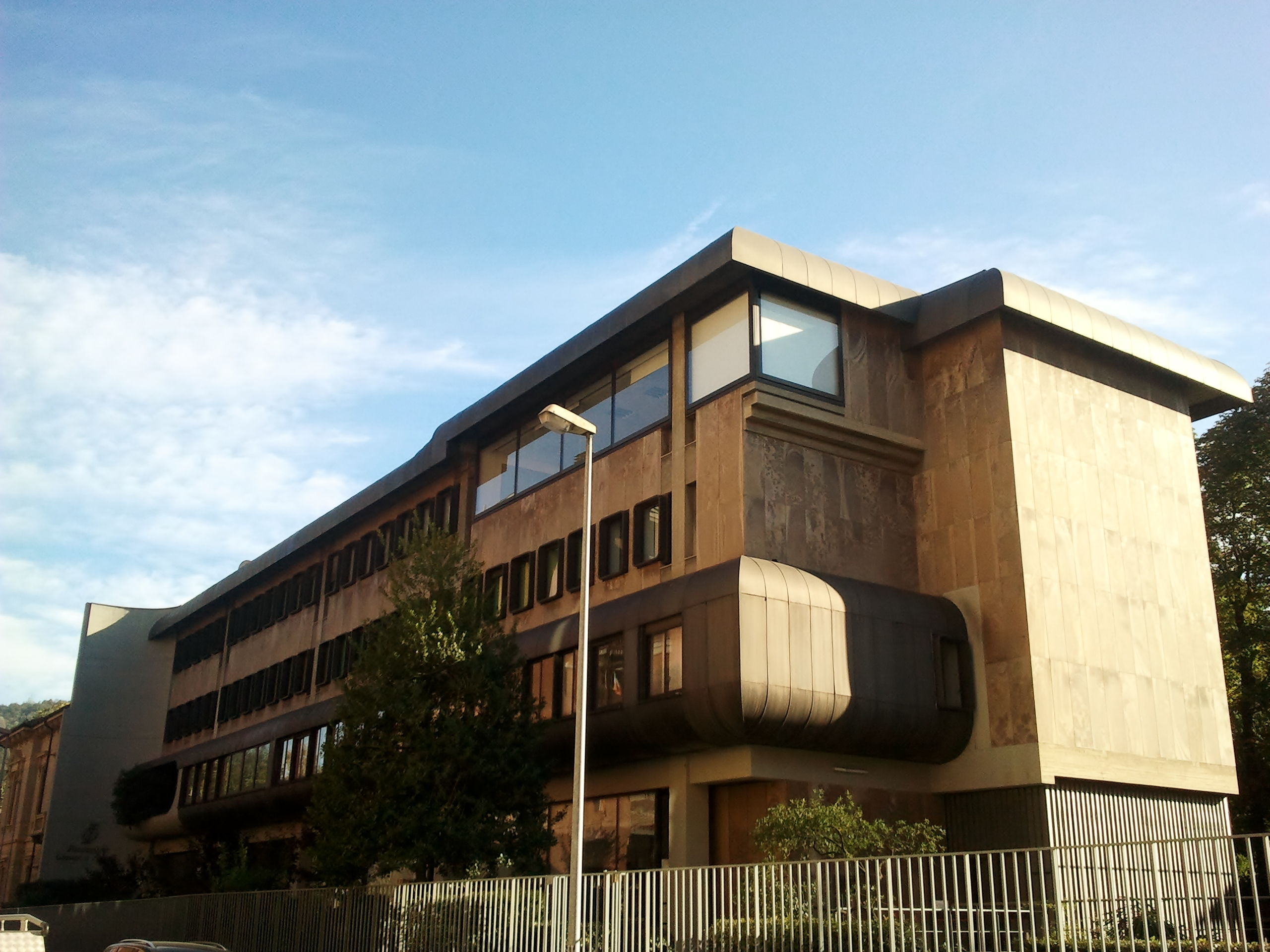 Fundazione Giovanni Agnelli. Torino